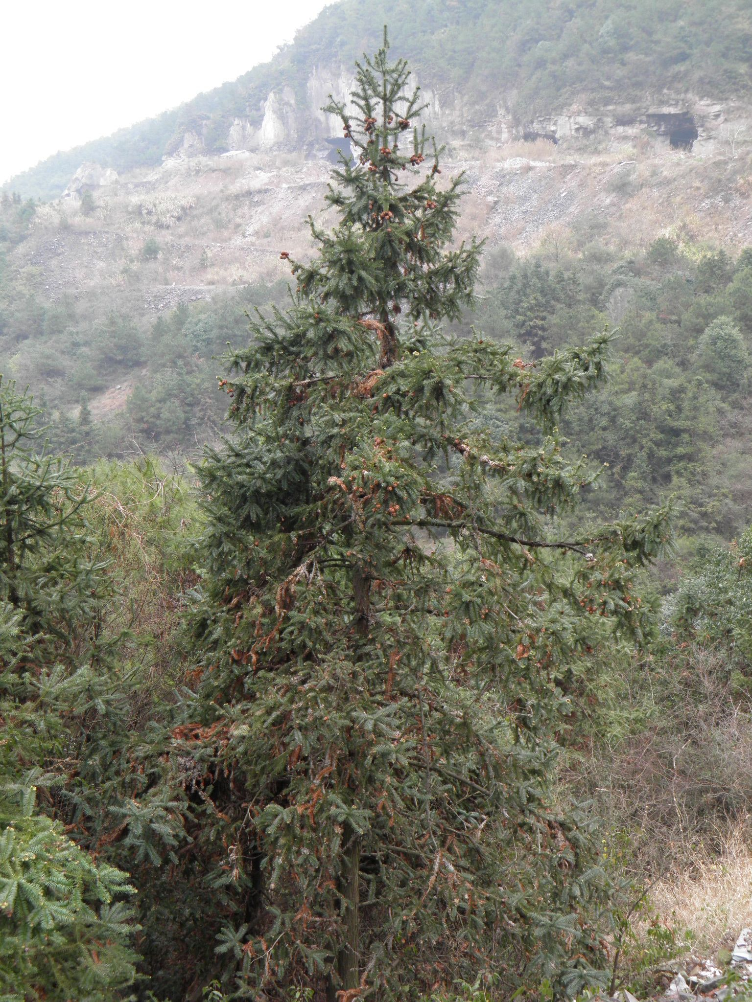 Cunninghamia lanceolata, Fangshan, Wenzhou/Taizhou, Zhejiang, PR China